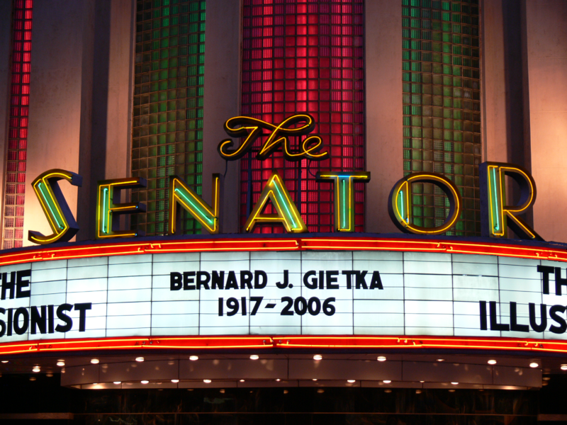 sure rock store, Baltimore, Maryland.